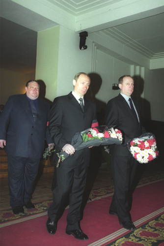 MOSCOW. A memorial service for special forces servicemen from the Federal Security Service (FSB) who died in Chechnya the week before.